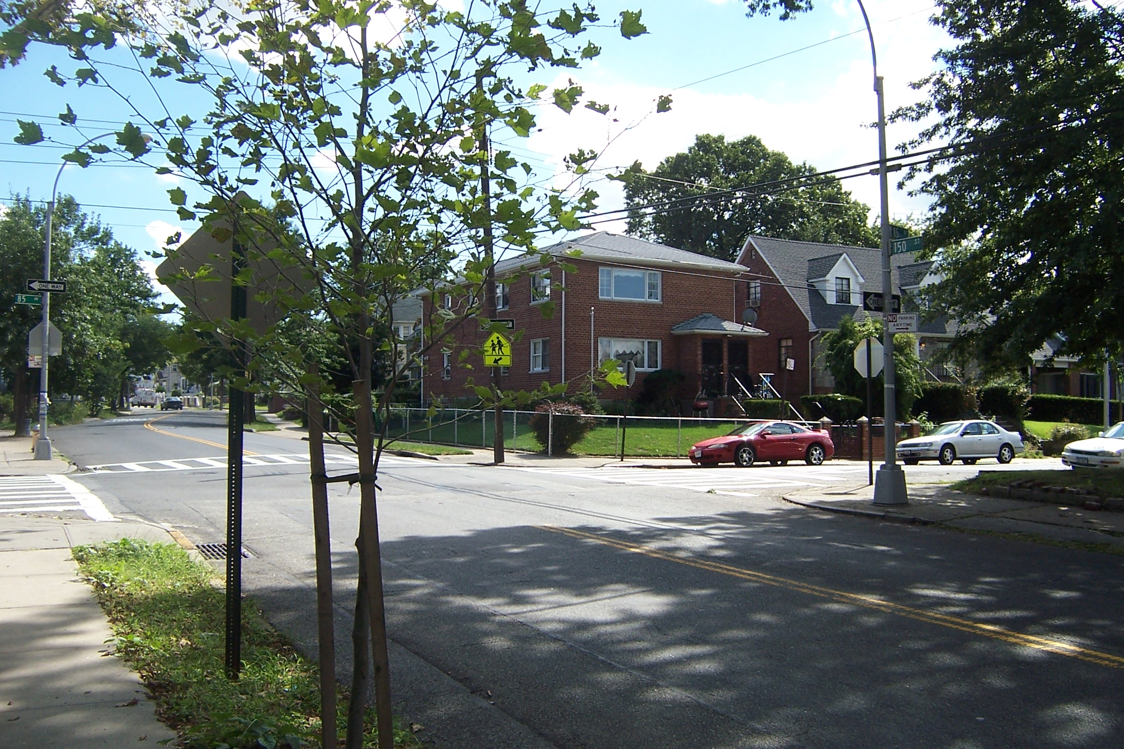 The intersection of 85 Ave and 150 St in Briarwood, Queens.